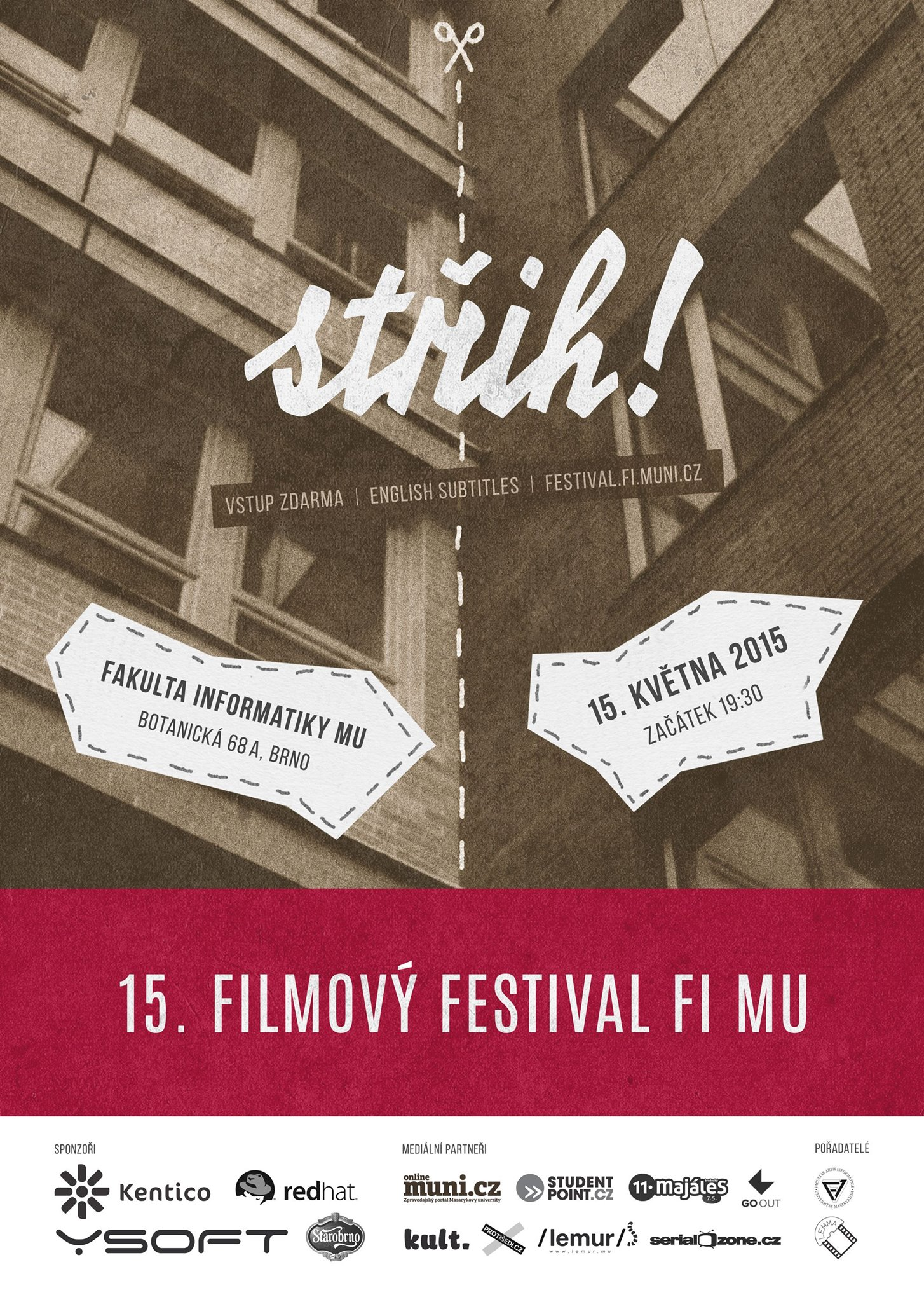 The poster of 15th Film Festival of Faculty of Informatics